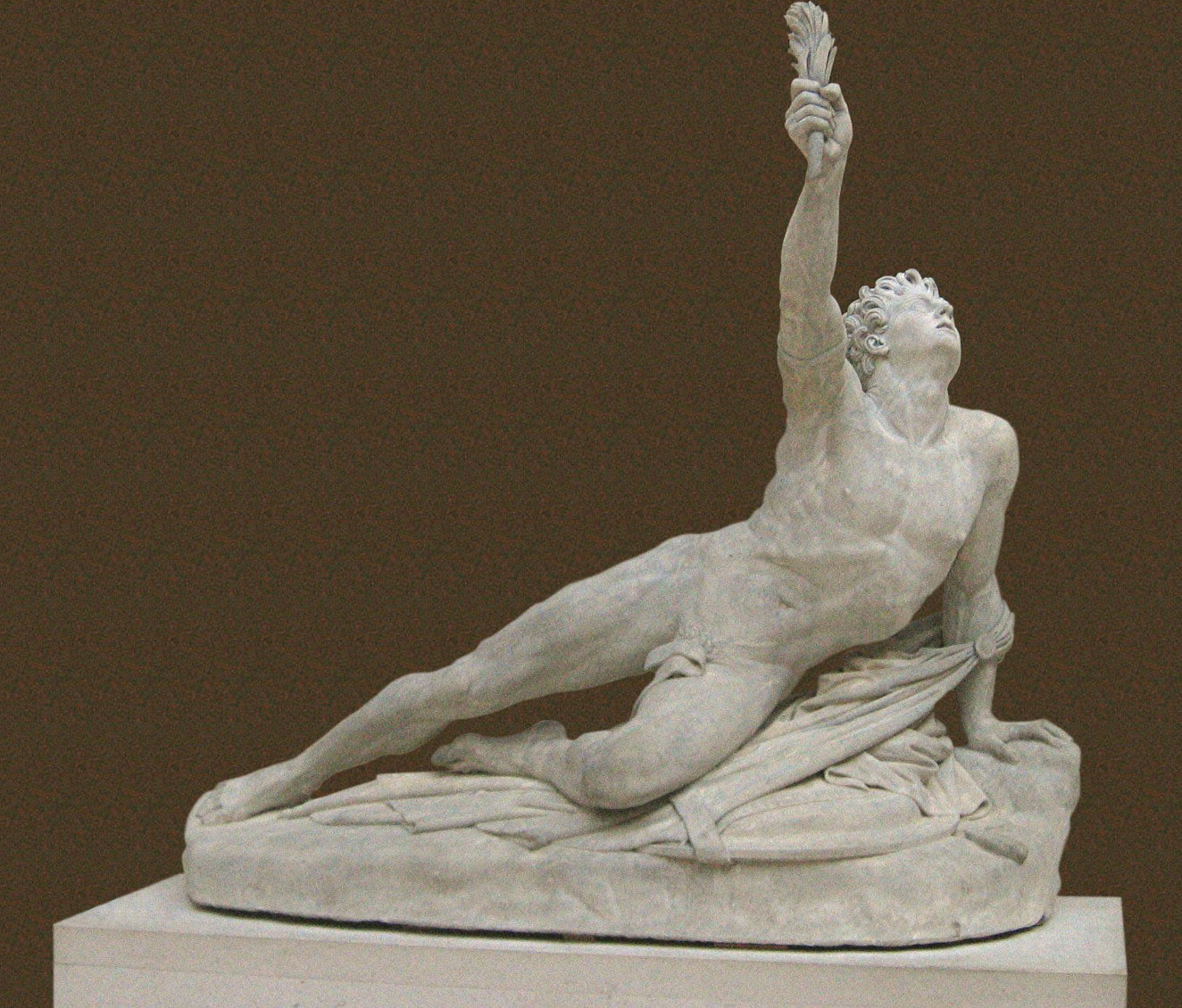 Le Soldat de Marathon annonçant la victoire (“The Soldier of Marathon announcing the Victory”). Marble, 1834 (first exhibited at the Salon of 1822).